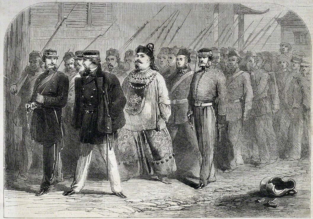 Capture of Yeh-Ming-Chen by the British army, in 1858.